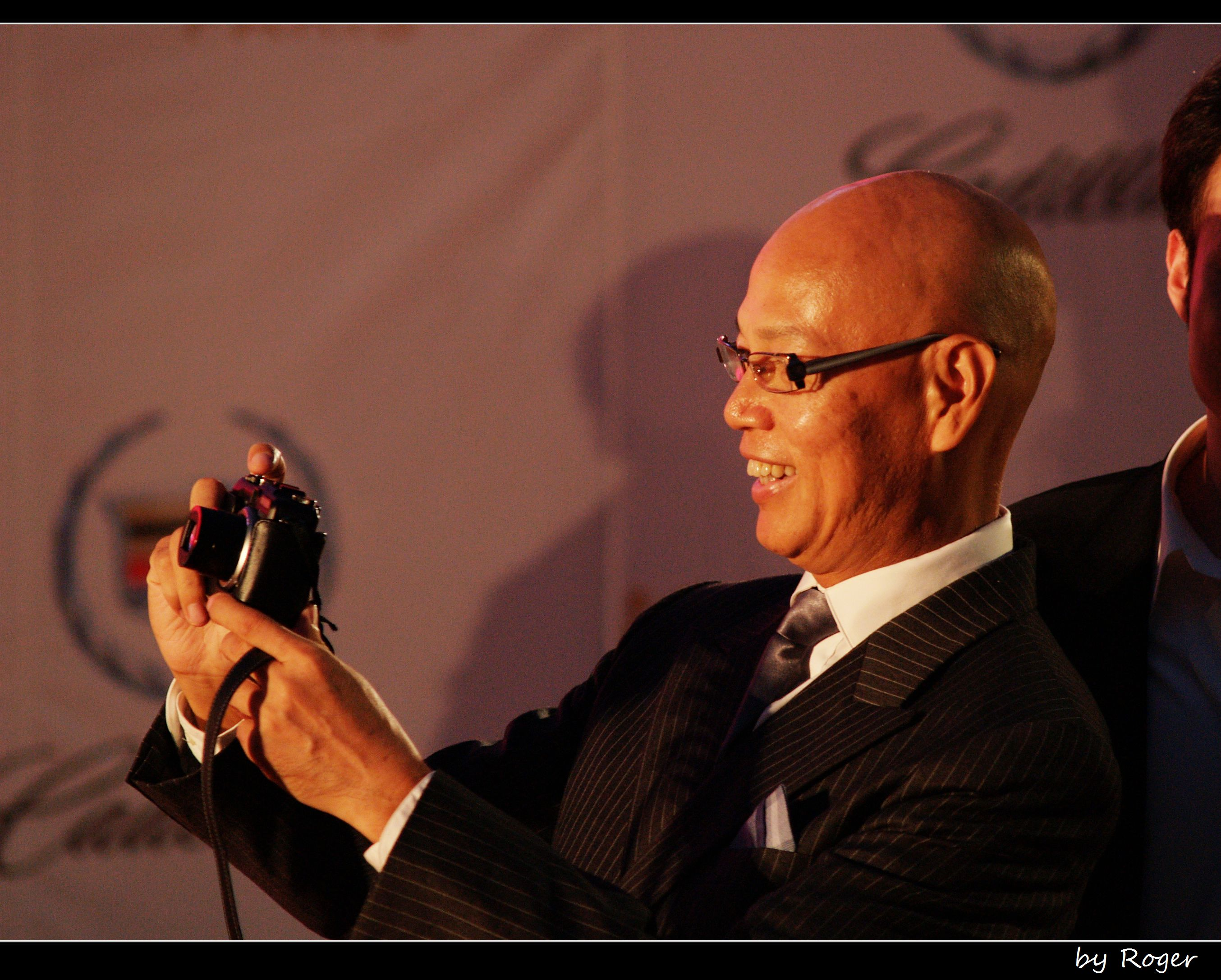 Law Kar-ying